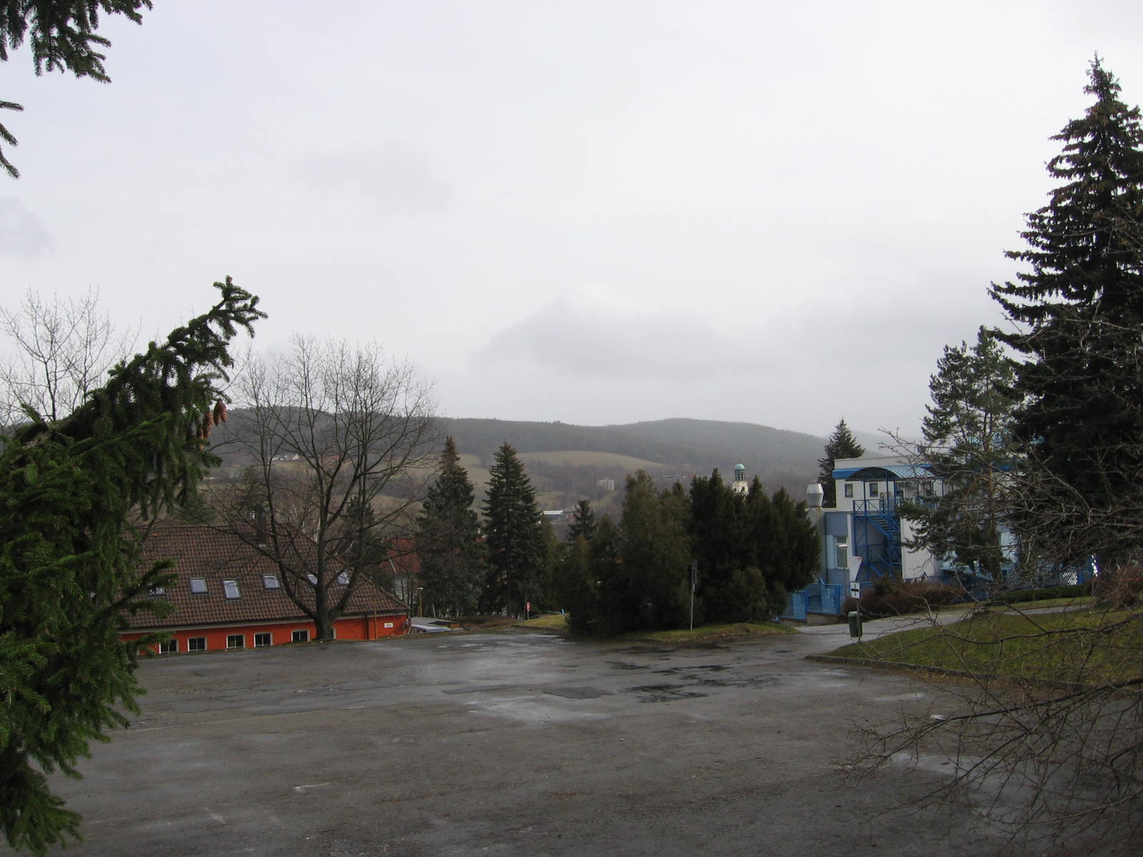 Former Barracks of the 62nd Motor Rifle Regiment in Prachatice.